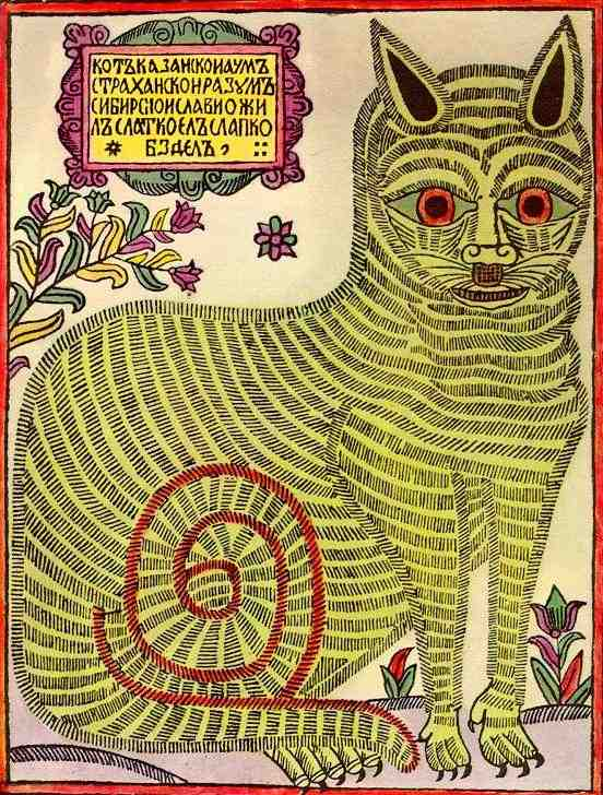 Cat of Kazan, mind of Astrakhan, reason of Siberia, he lived gloriously, ate sweet and farted sweet. Russian lubok, a possible satire of Peter the Great.